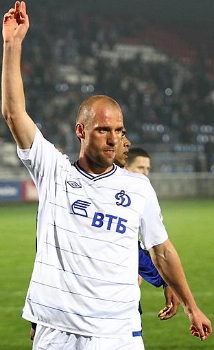 Martin Jakubko